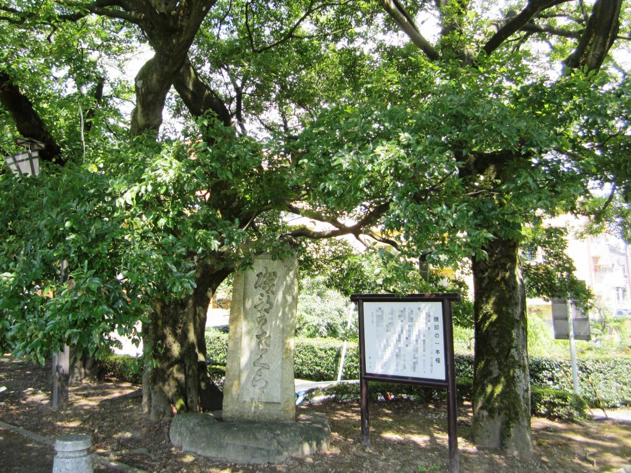 "Isobe no Ippon Enoki" is a hackberry under that Sayuri, Sassa Narimasa's concubine, was KIlled located in Toyama, Toyama.